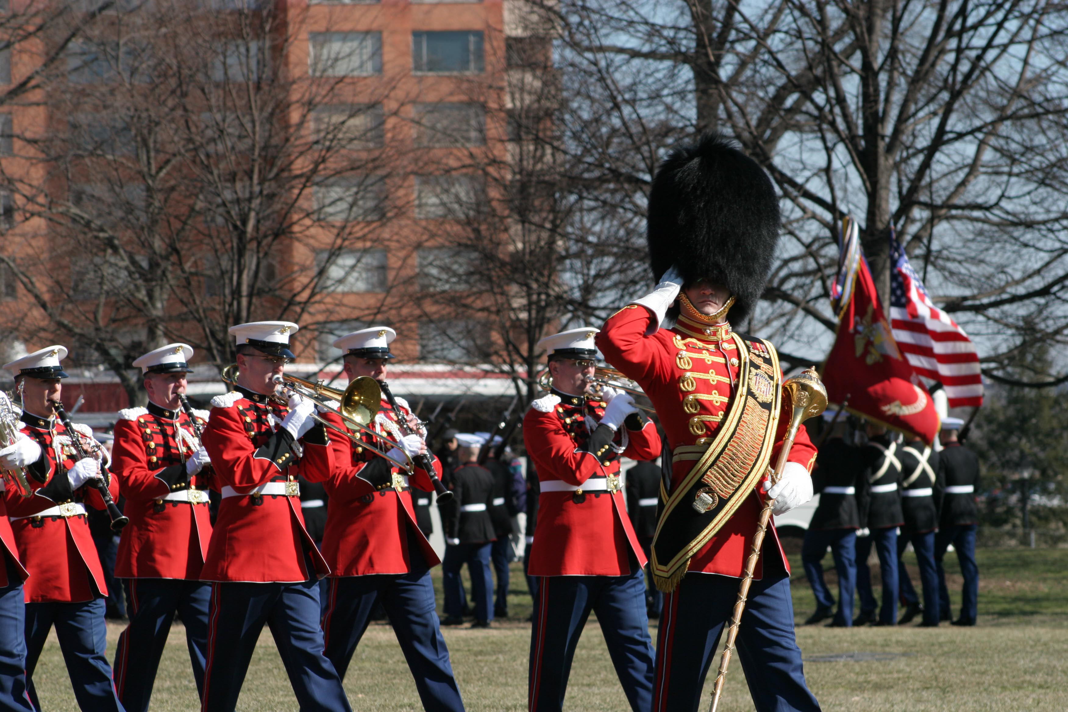 Master Gunnery Sgt Thomas D. Kohl leads "The President's Own" United States Marine Band during the 60th Anniversary of the Battle of Iwo Jima commemoration ceremony Feb. 19, 2005 at the Marine Corps War Memorial. (Photo by LCpl L.A. Crespo)